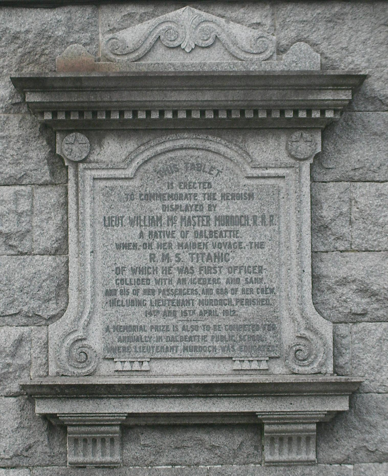 The memorial at Dalbeattie town hall to First Officer William McMaster Murdoch of the RMS Titanic. The inscription reads: “ THIS TABLET IS ERECTED TO COMMEMORATE THE HEROISM DISPLAYED BY LIEUT. WILLIAM Mc MASTER MURDOCH. R.N.R. A NATIVE OF DALBEATTIE WHEN ON HER MAIDEN VOYAGE -THE R. M. S. TITANIC -OF WHICH HE WAS FIRST OFFICER COLLIDED WITH AN ICEBERG AND SANK AND 815 OF HER PASSENGER, AND 688 OF HER CREW INCLUDING LIEUTENANT MURDOCH PERISHED 14th AND 15th APRIL 1912 A MEMORIAL PRIZE IS ALSO TO BE COMPETED FOR ANNUALLY IN DALBEATTIE PUBLIC SCHOOL WHERE LIEUTENANT MURDOCH WAS EDUCATED ”